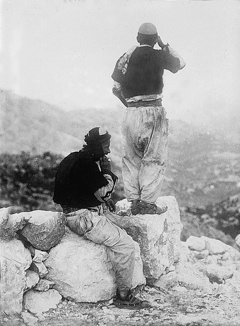 Albanian outpost in montenegro